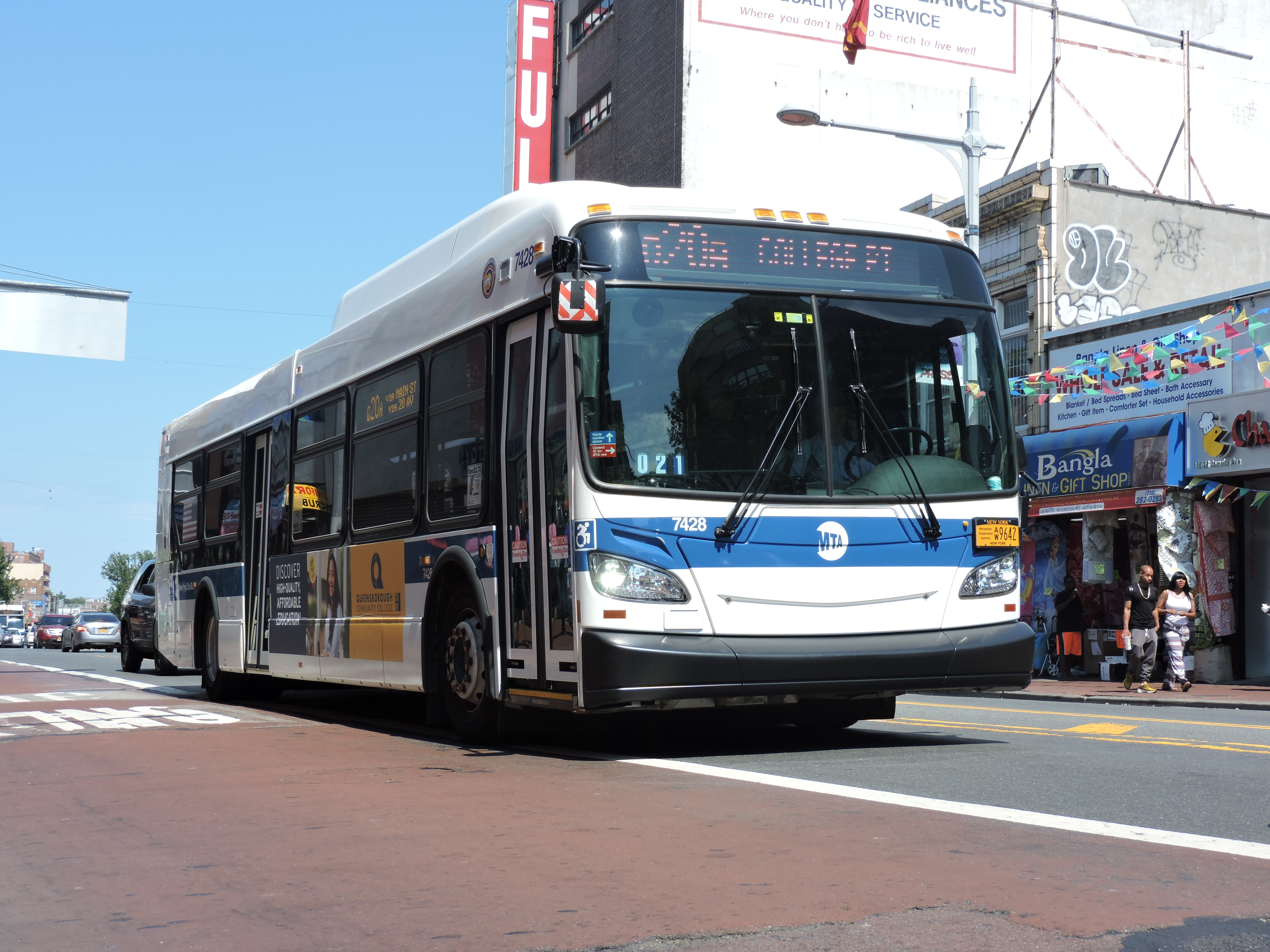 A New Flyer bus on the Q20A in Jamaica, Queens